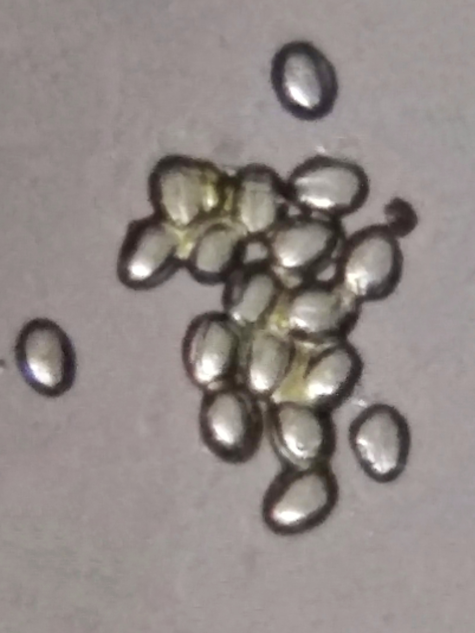 Pollens of Moringa oleifera